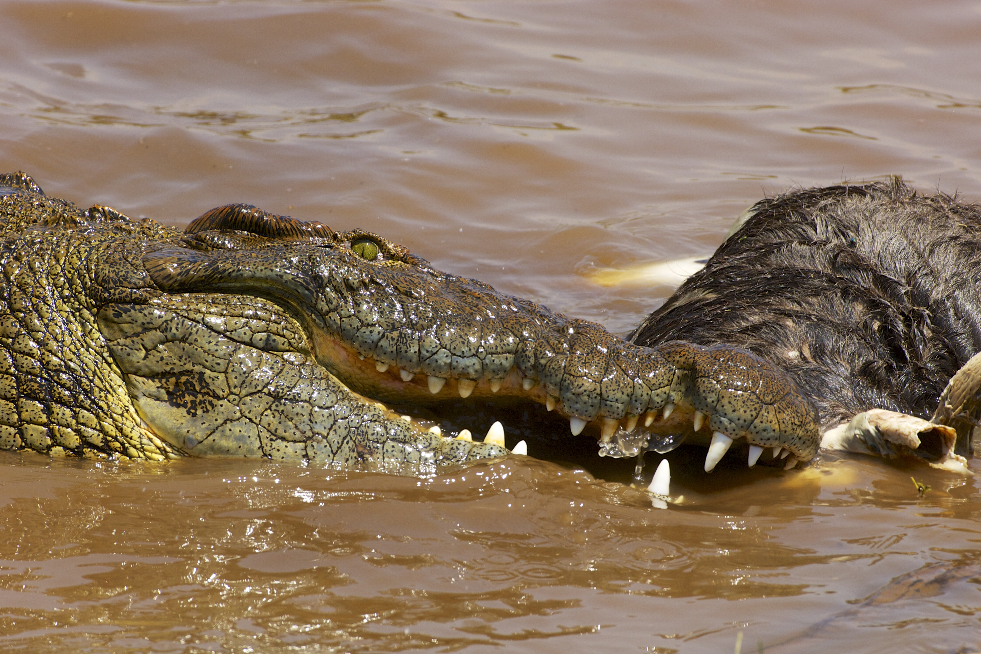 A Nile Crocodile (Crocodylus niloticus) feeds on a dead wildebeest, during the Great Migration, in the Masai Mara, in Kenya